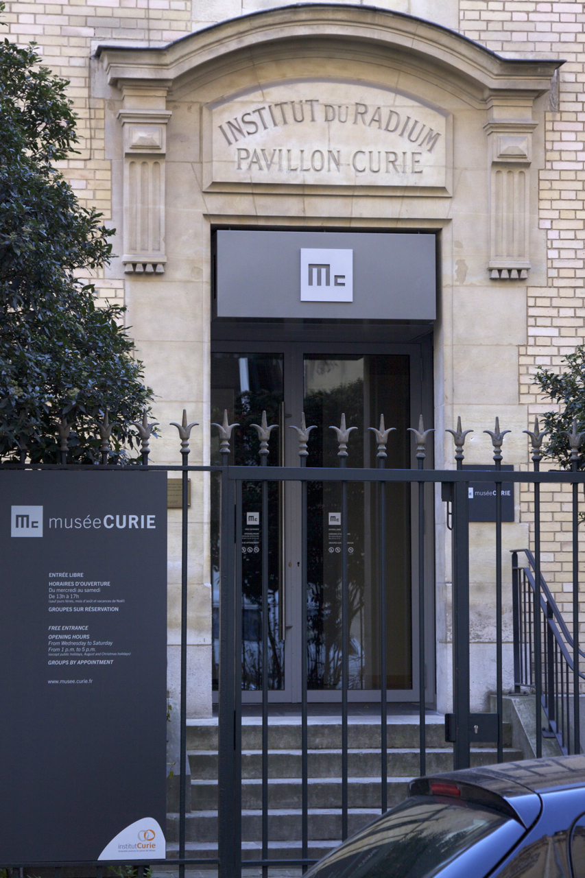 Entrance to Musee Curie, Paris